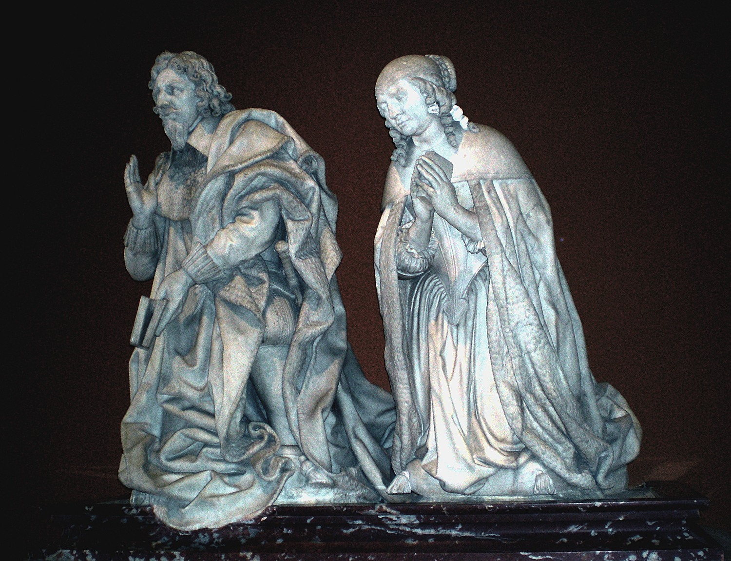 Upper part of duke Charles de La Vieuville and wife's tomb